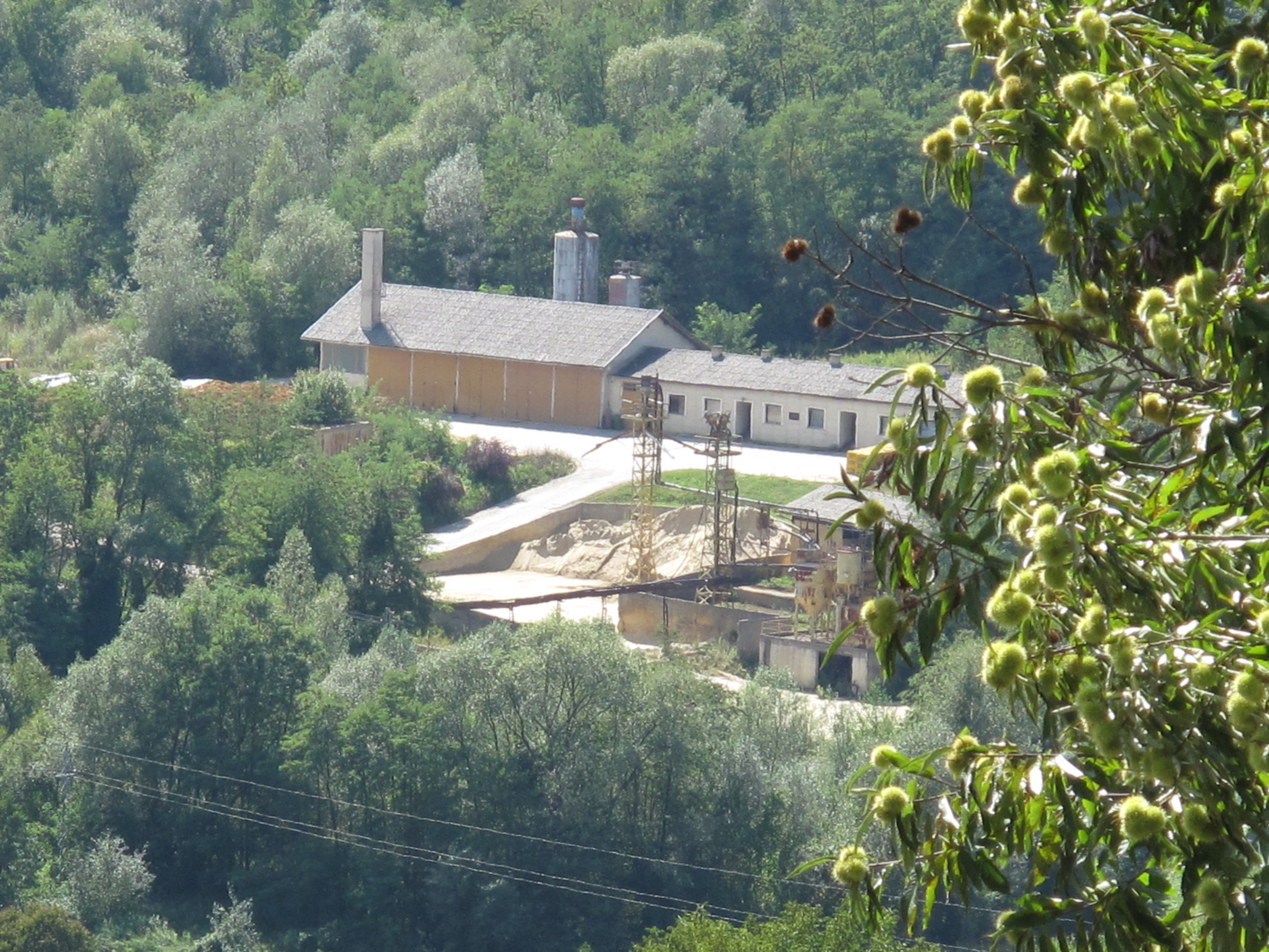 Rudnik Globoko (Globoko mine), view from saint Barbara church, Piršenbreg